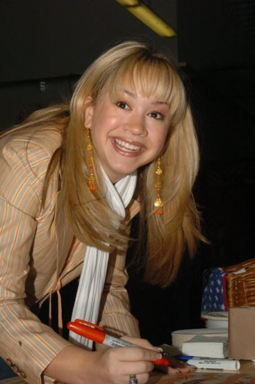 Diana DeGarmo.